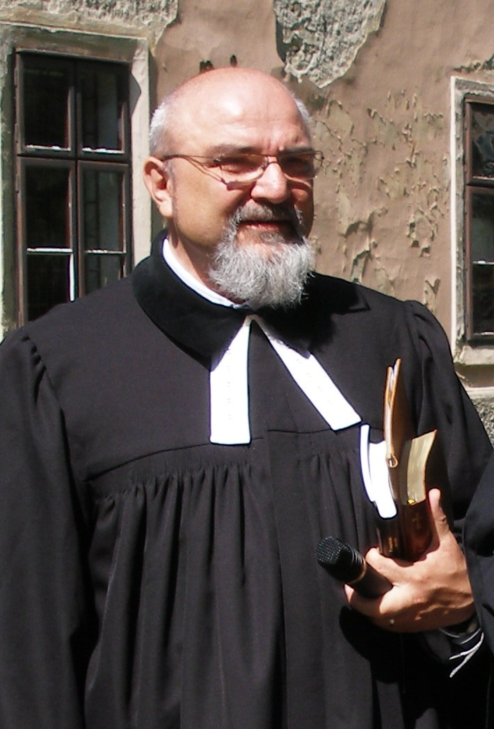 Miroslav Erdinger (on the left) and Roman Porubän in Kežmarok, Slovakia